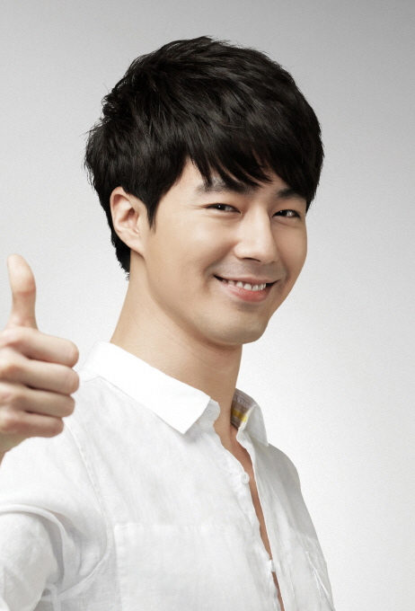 Zo In Sung as LG Whisen model